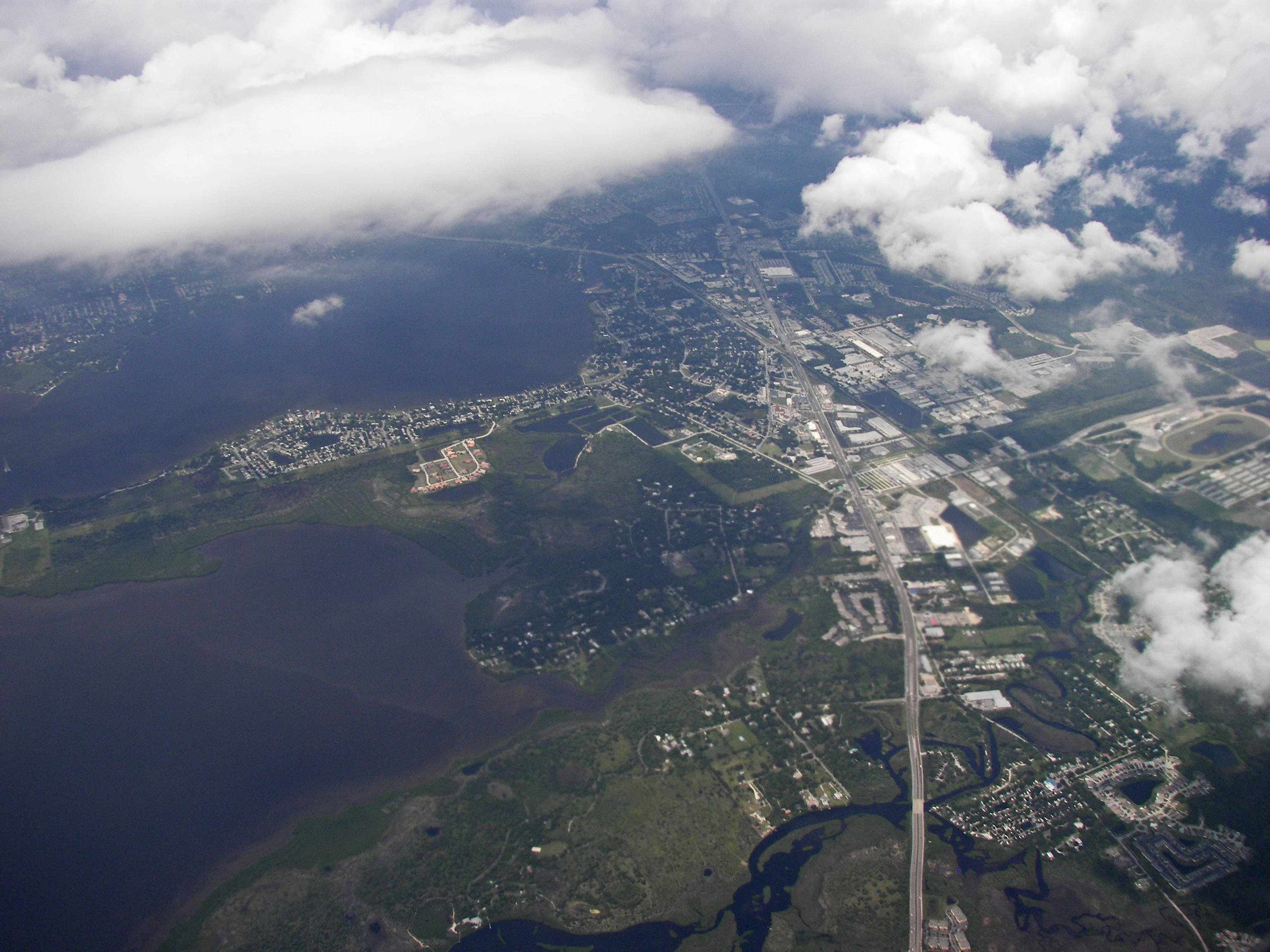 Aerial view of Oldsmar, Florida.